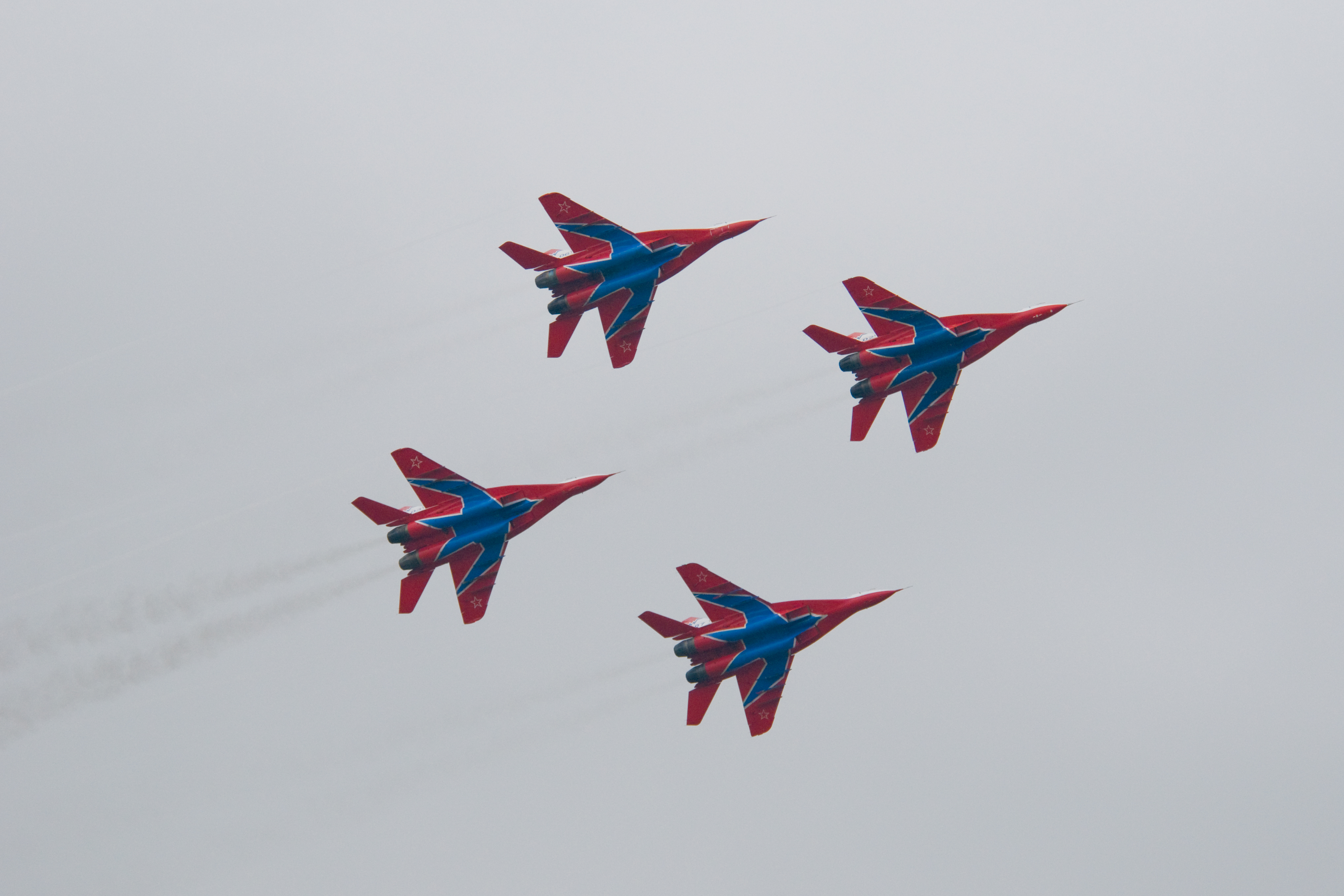 Strizhi (The Swifts) Aerobatics Team at MAKS-2009